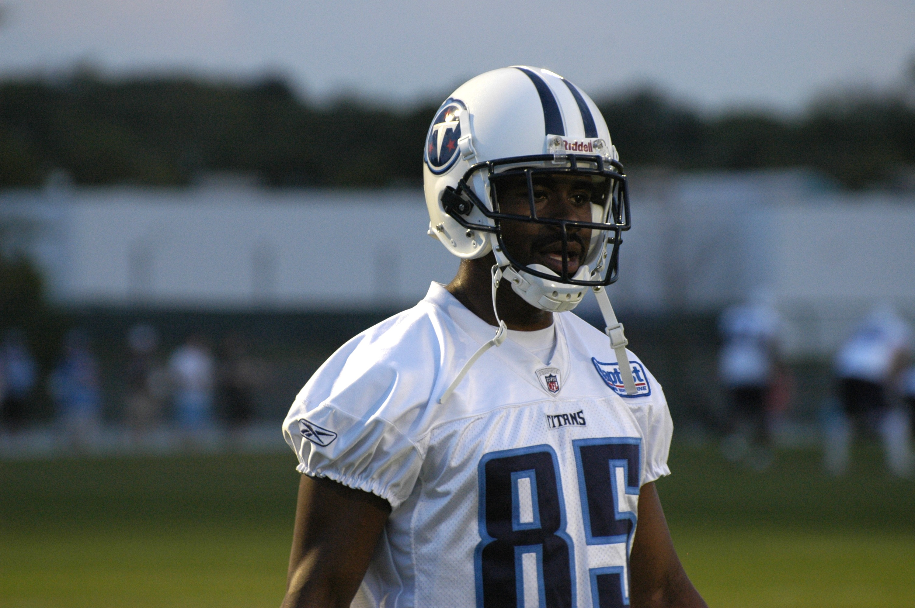 Wide receiver, Nate Washington, at Tennessee Titans training camp in 2009.